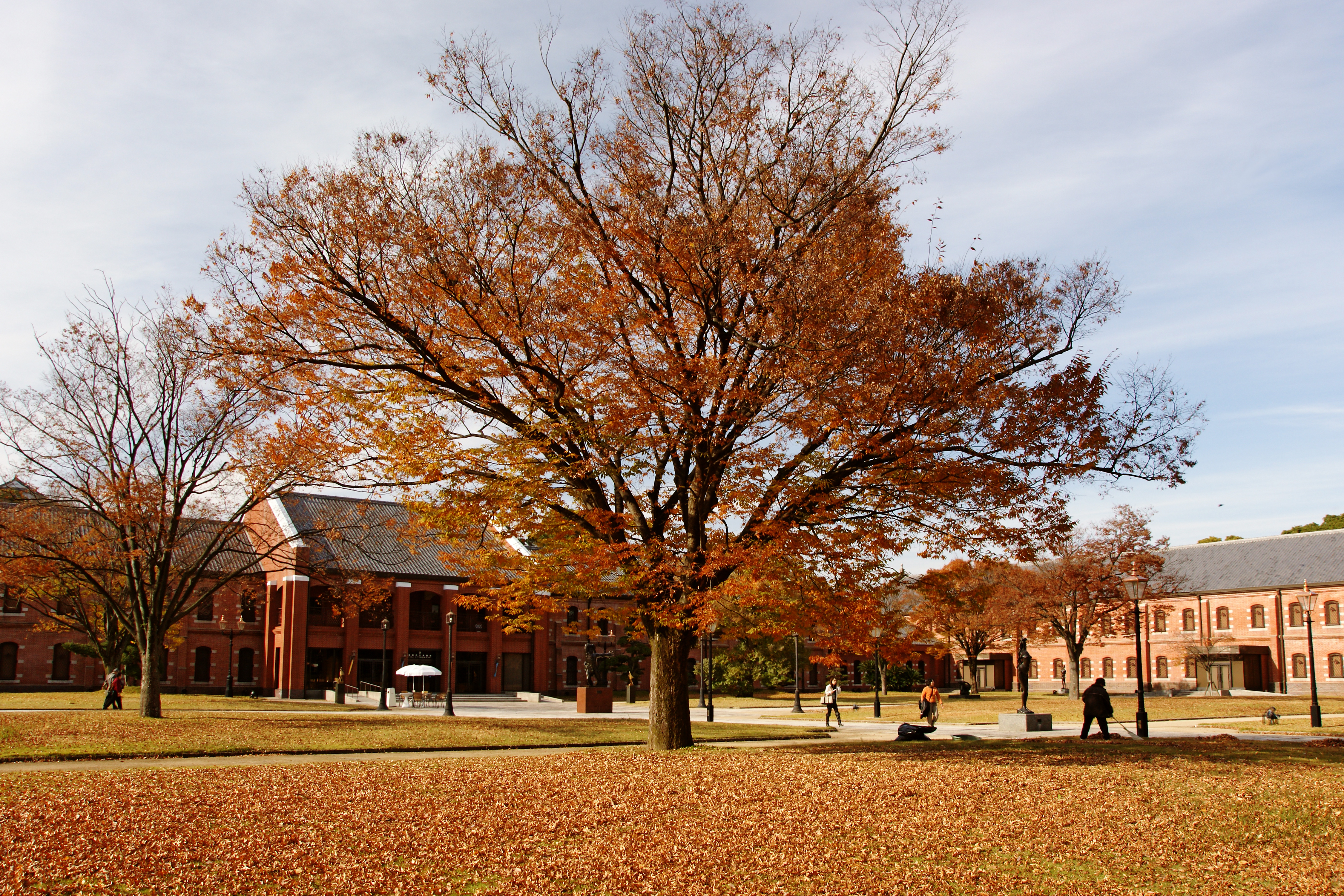 Himeji City Museum of Art in Himeji, Hyogo prefecture, Japan